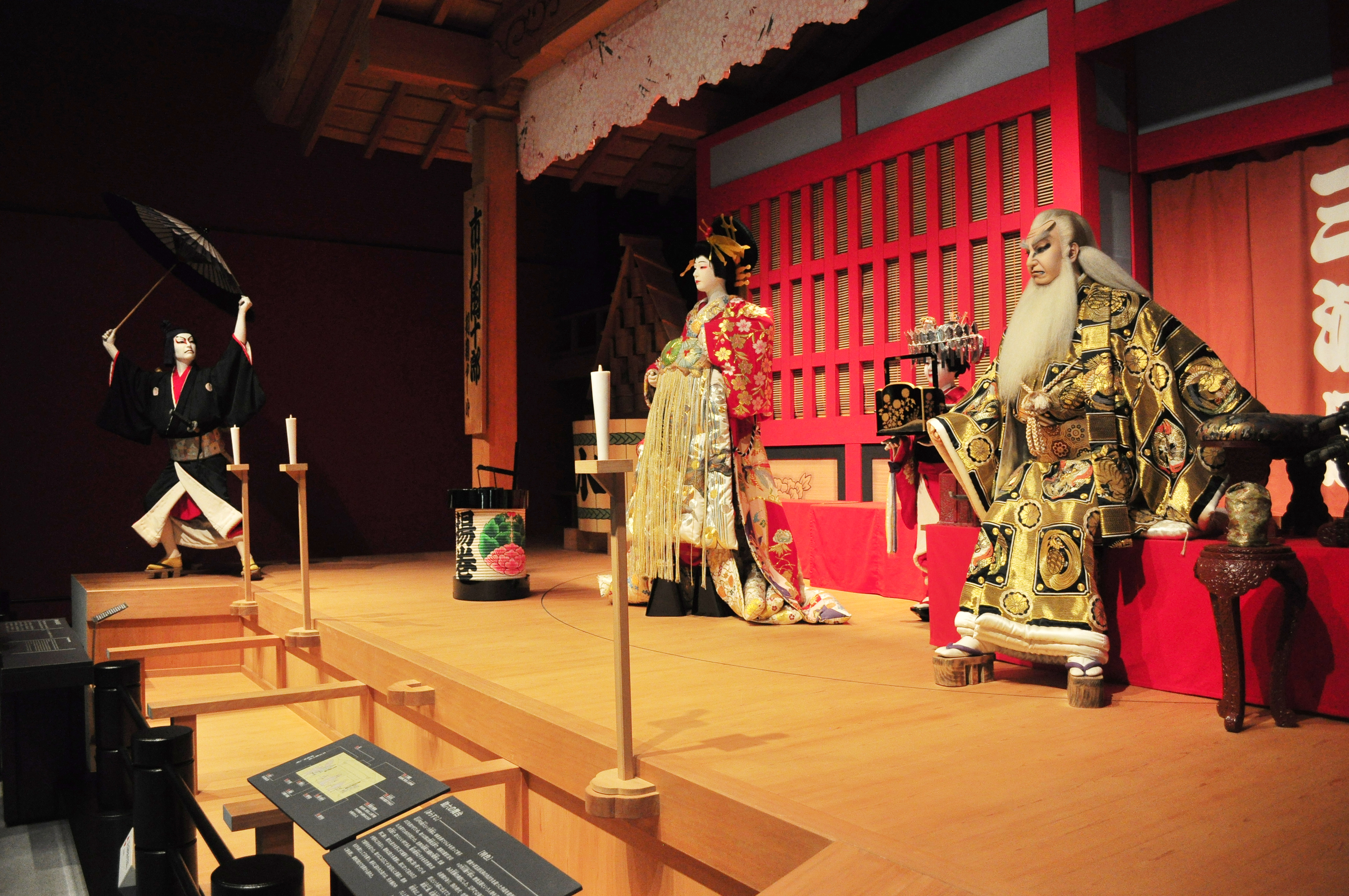 Edo-Tokyo Museum, Tokyo, Japan.